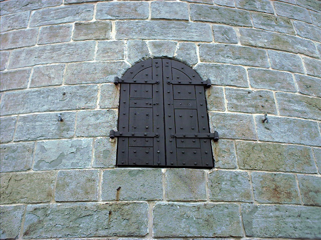 Martello Tower door in The Battlefields Park in Quebec City, Quebec.